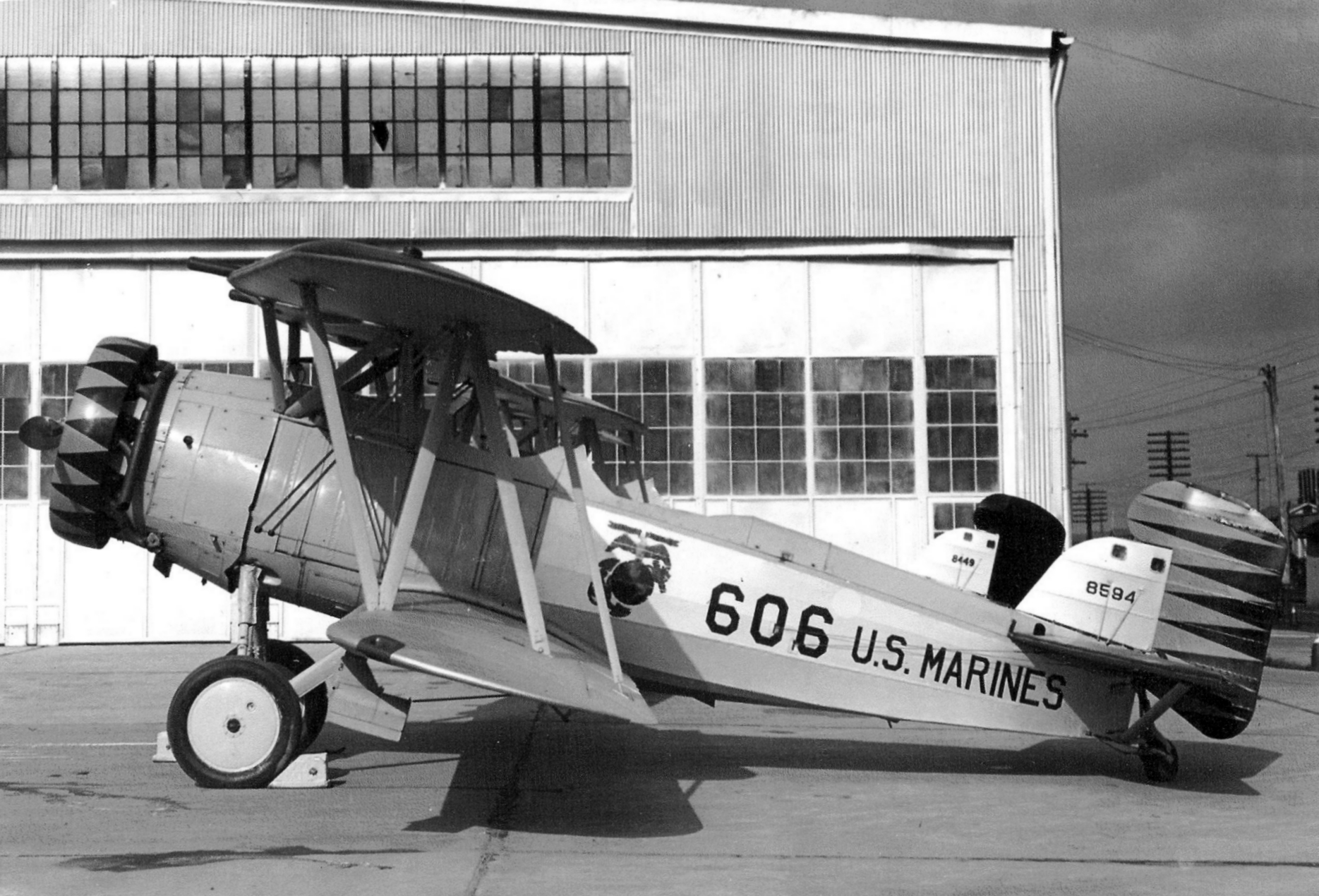 Two U.S. Marine Corps Curtiss O2C-1 Helldiver (BuNo A8449, A8594) assigned to Marine Observation Squadron VO-6M parked in front of hangars. VO-6M was based at Quantico, Virginia (USA).